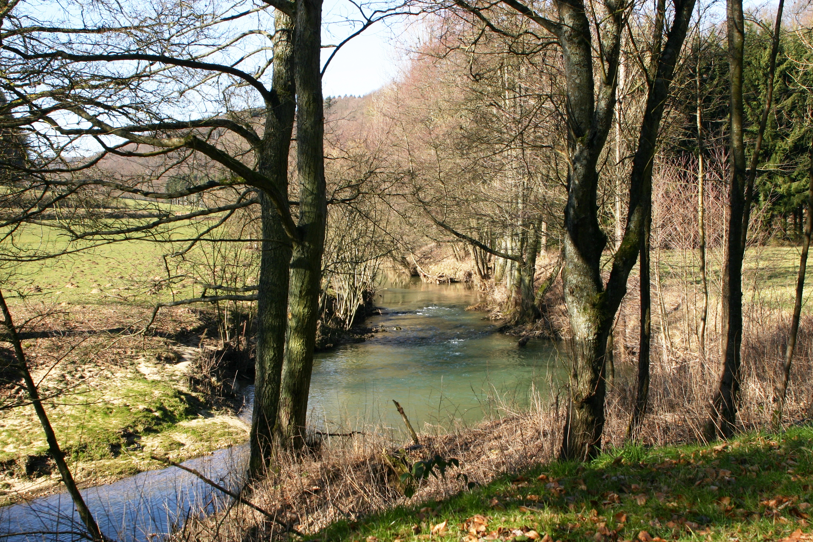 River Eisch near Septfontaines (Luxembourg)